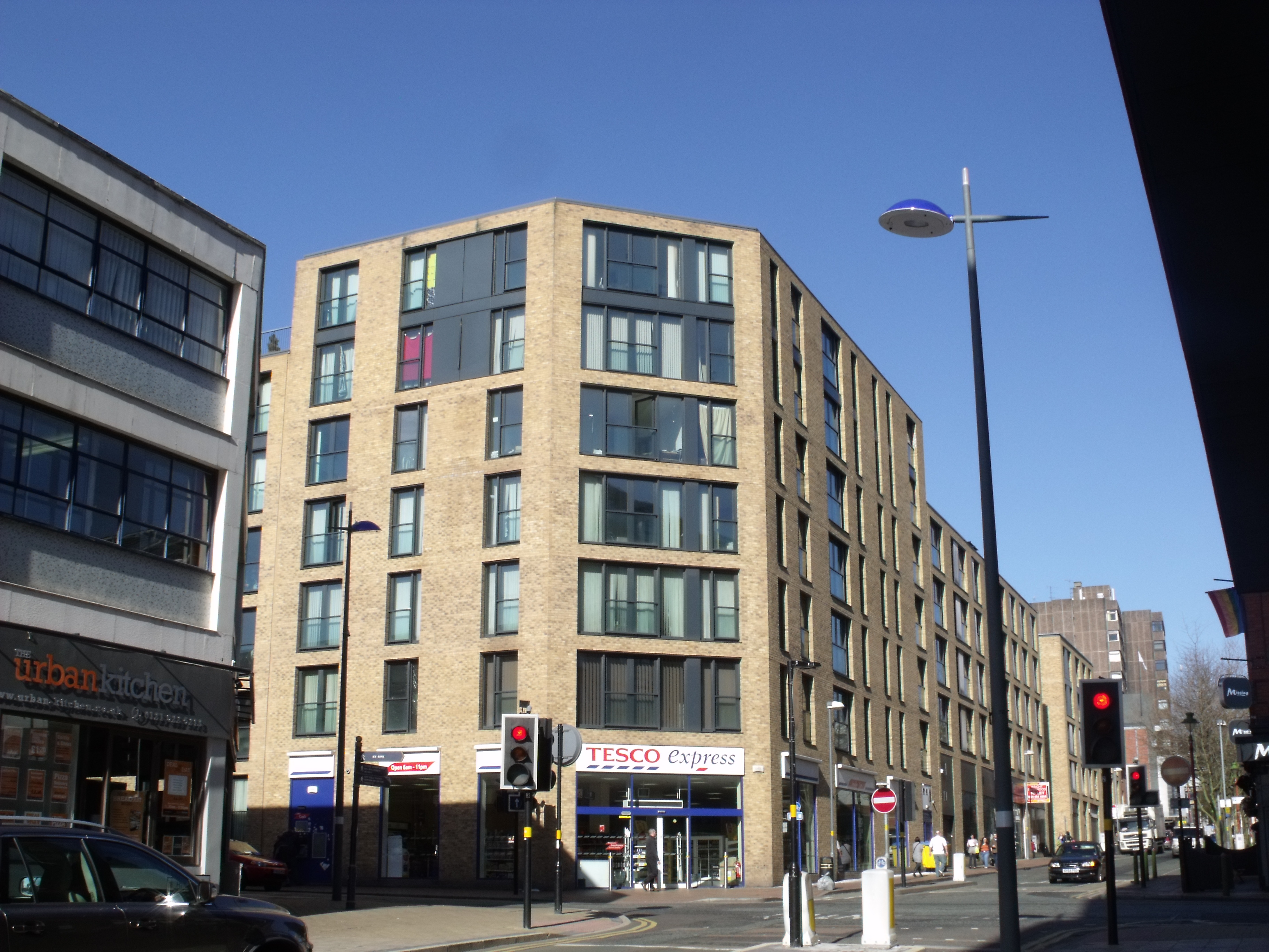 The Tesco and above apartments in the Birmingham Gay Village